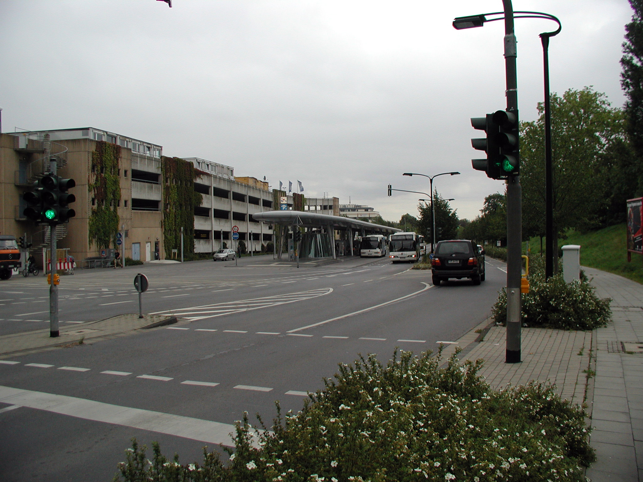 Commercial center Hürth, bus station